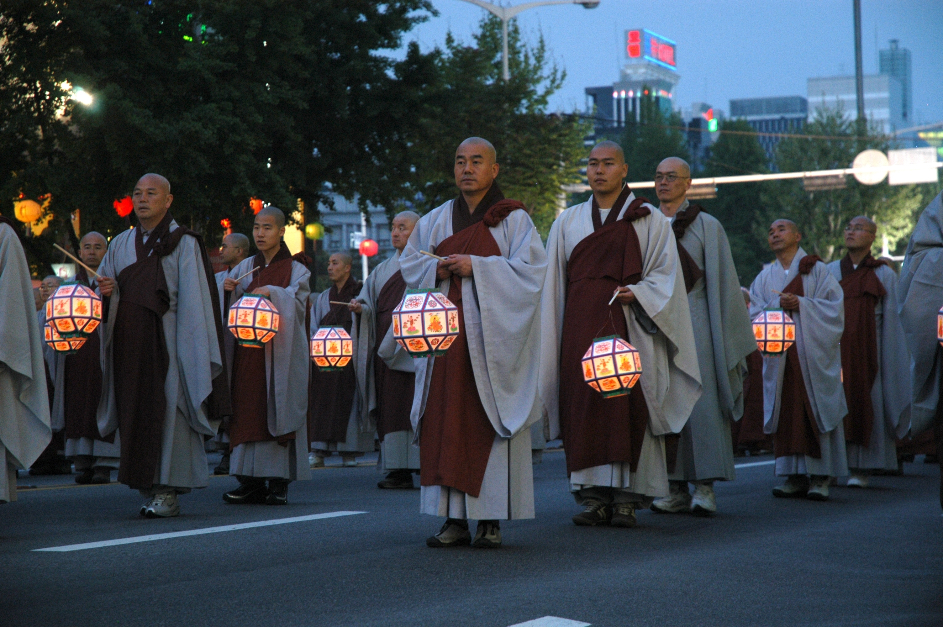 Buddhist monks march through downtown Seoul during a celebration for Buddha's birthday.